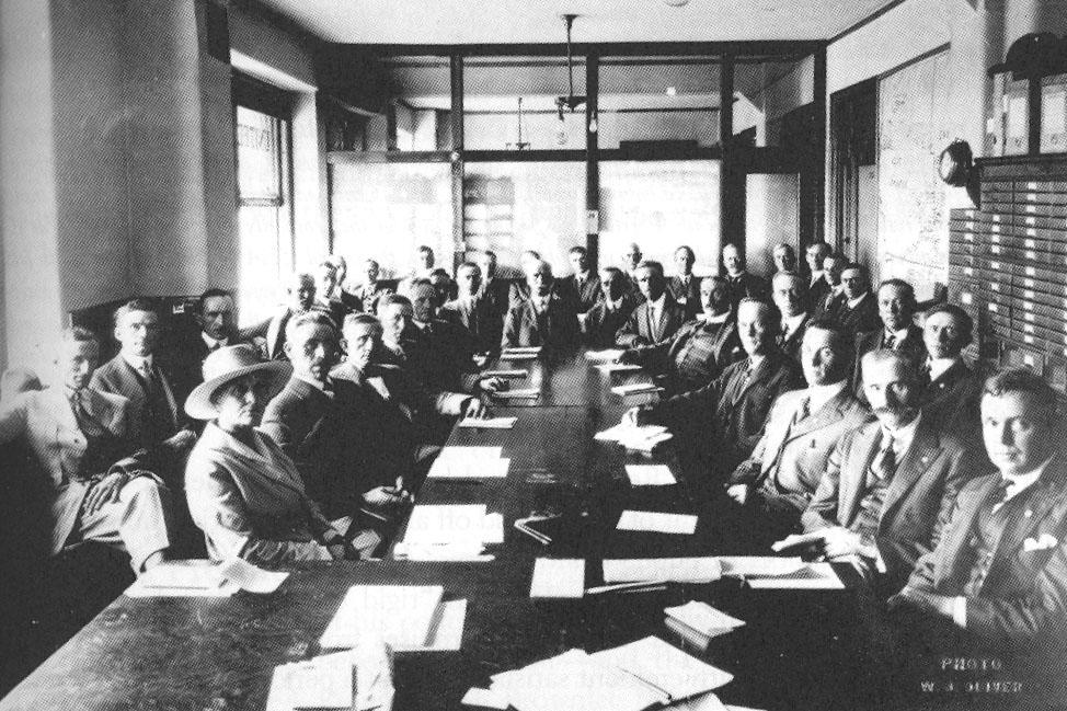 The first United Farmers of Alberta legislative caucus. This was the meeting at which Herbert Greenfield was selected as Premier. On the right is Richard Reid, who chaired the meeting and who would later serve as Premier himself. On the left is Irene Parlby, Alberta's first female cabinet minister.